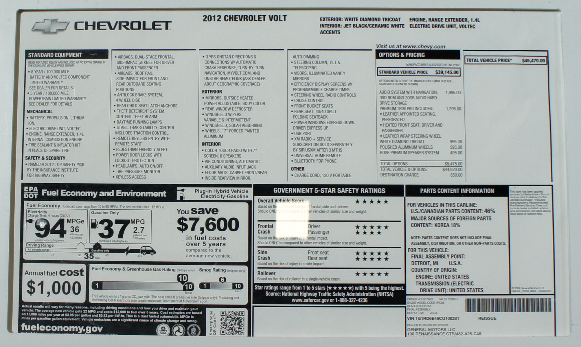 Window sticker with EPA/DOE fuel economy and environment label (located at the lower left corner) for the 2012 Chevrolet Volt plug-in hybrid